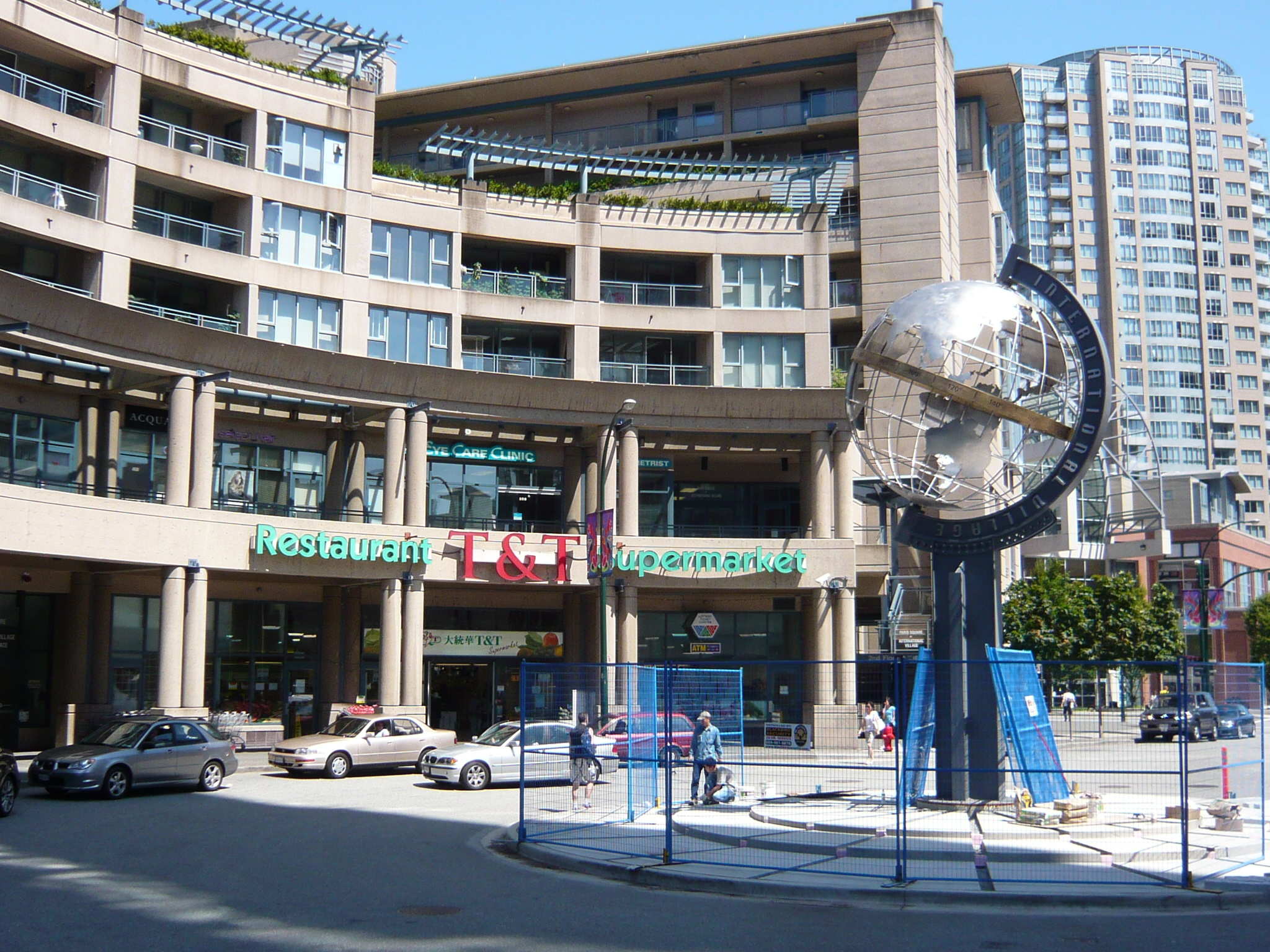 T & T Supermarket at International Village